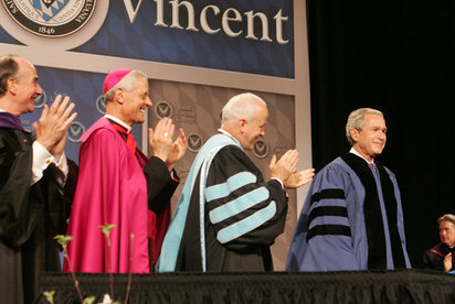 President George W. Bush is applauded by Saint Vincent College President Jim Towey, center, and Washington Archbishop Donald Wuerl as he is introduced on stage Friday, May 11, 2007, prior to delivering the commencement address at Saint Vincent College in Latrobe, Pa. White House photo by Joyce Boghosian